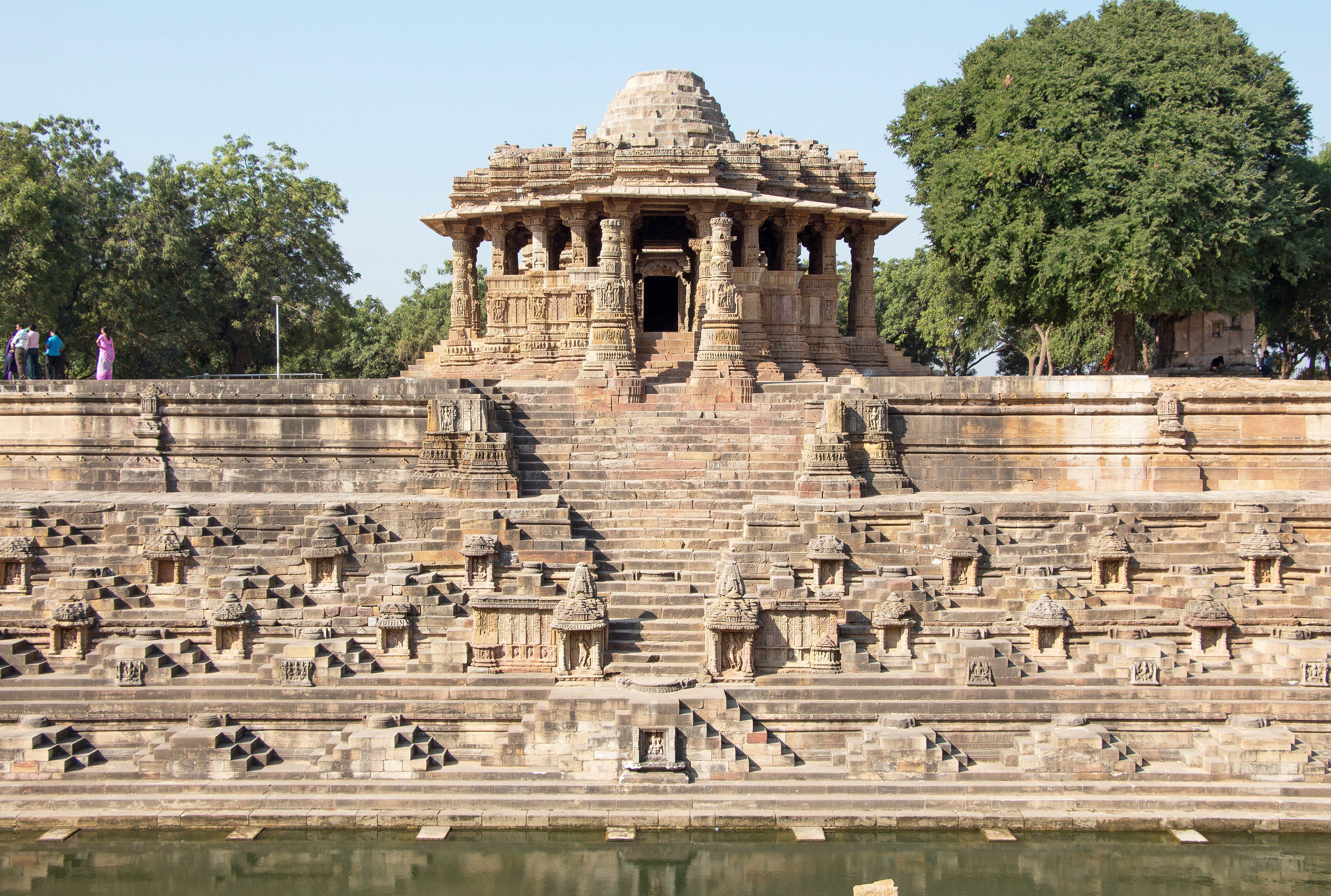 View of Sabha Mandap at the Sun Temple, Modhera, India